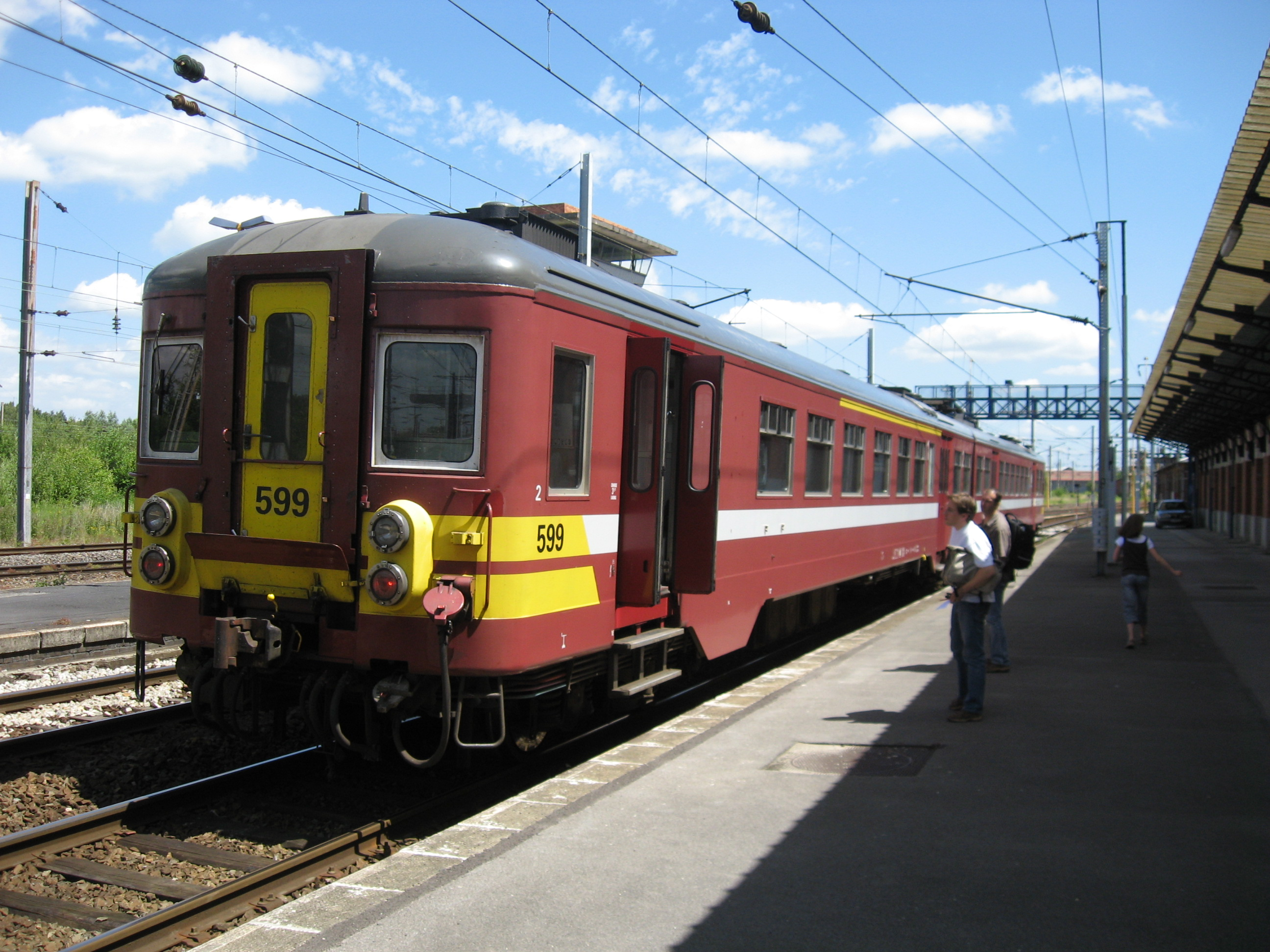 Belgian multiple unit at French Jeumont station. This overhead can be switched to the Belgian 3000V direct current.